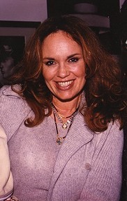 This photo of Catherine Bach was taken at one of Greg Gorman's parties at a studio in Los Angeles. Cropped by Magnus Manske 12:20, 30 September 2007 (UTC)